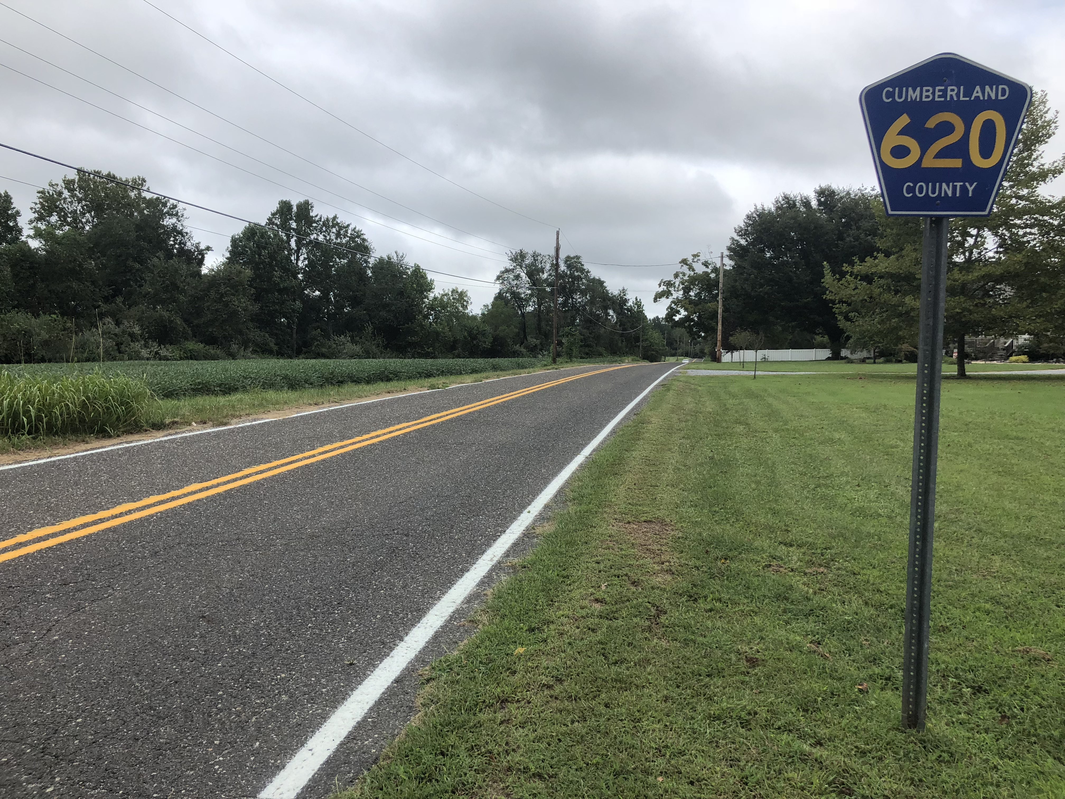 View north along Cumberland County Route 620 (Springtown Road) at Teaburner Road in Greenwich Township, Cumberland County, New Jersey